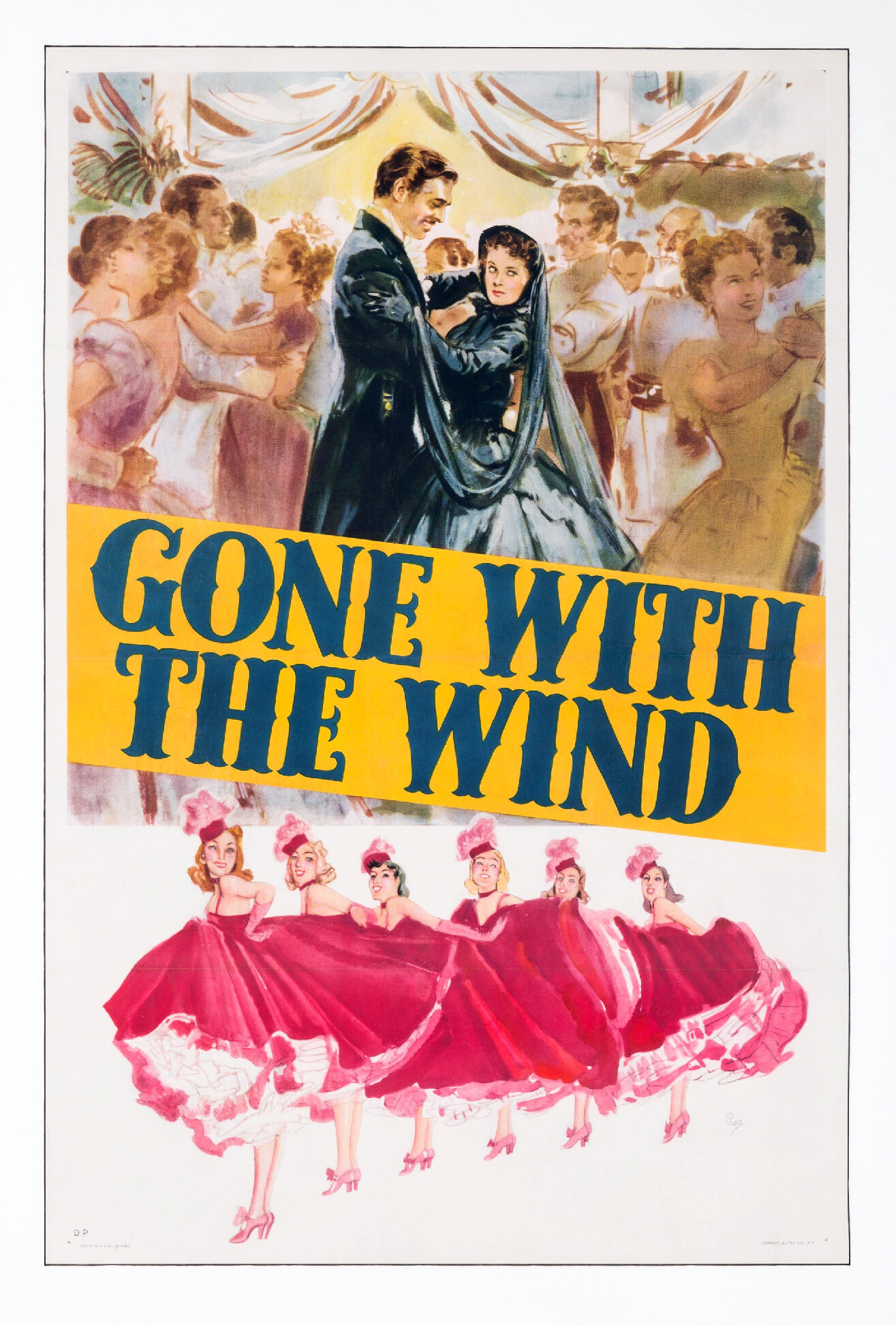 Poster for the 1939 film Gone with the Wind. The scene is where Rhett dances with Scarlett after having bid for her in the charity dance auction. The item has no copyright markings on it as can be seen in the links above. At bottom is DP, Litho in USA (looks like) 6261, and Tooker Litho Co., NY--they printed the poster.